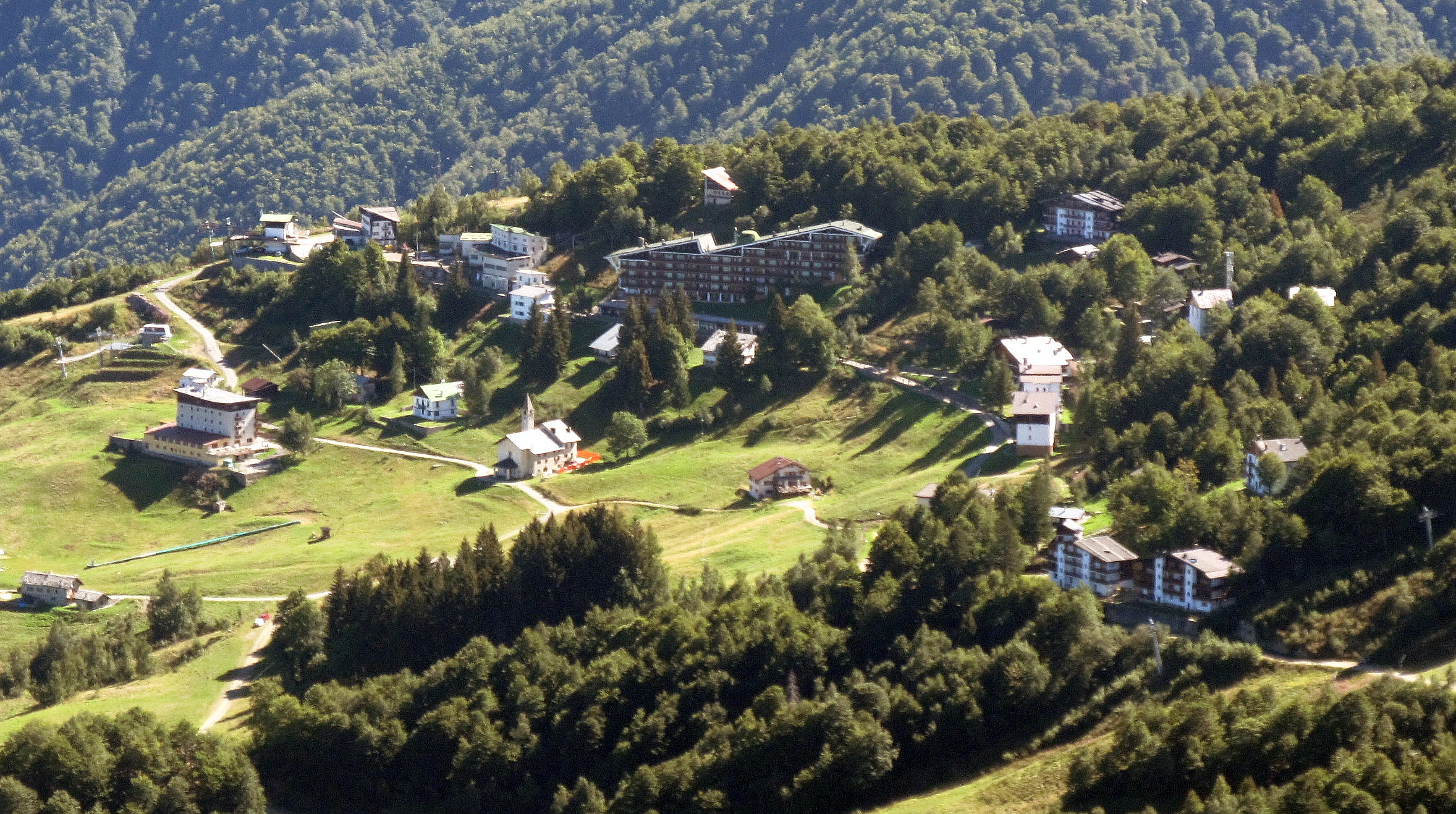 Alpe di Mera (Scopello, VC, Italy) as seen from Cima d'Ometto